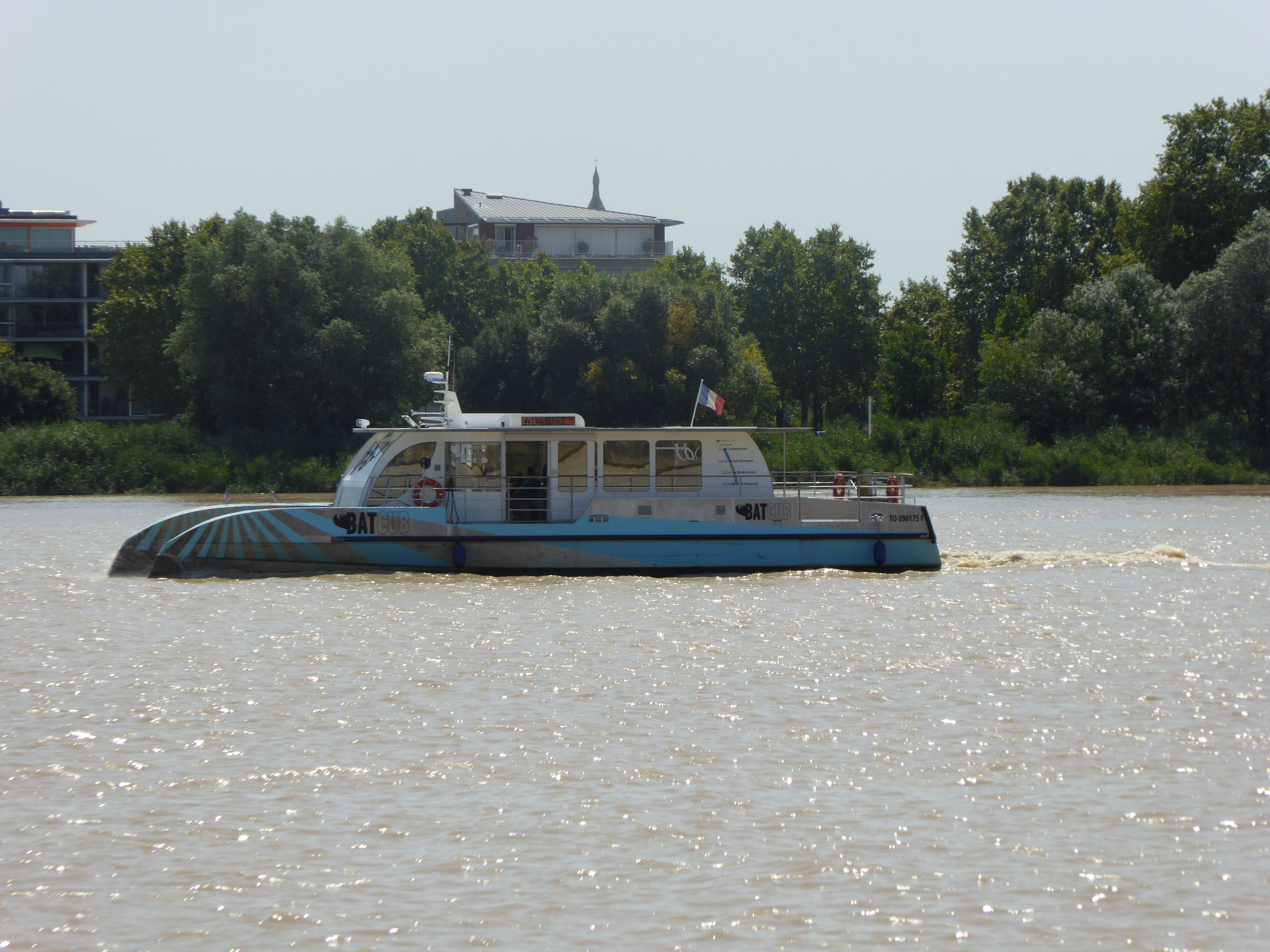 BatCub vessel on the Garonne, Bordeaux, France, July 2014